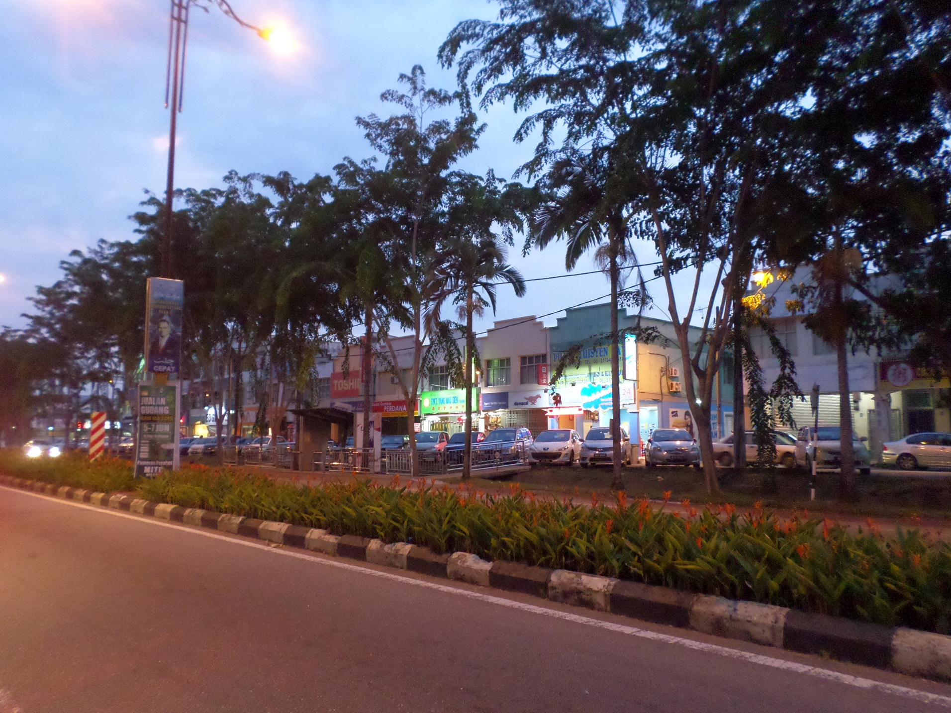 Batu Berendam, Malacca, MalaysiaBahasa Melayu: Batu Berendam, Melaka, Malaysia